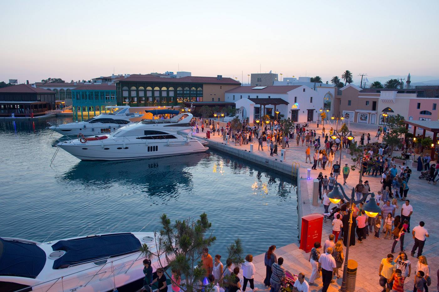 Limassol Marina dining and shopping area